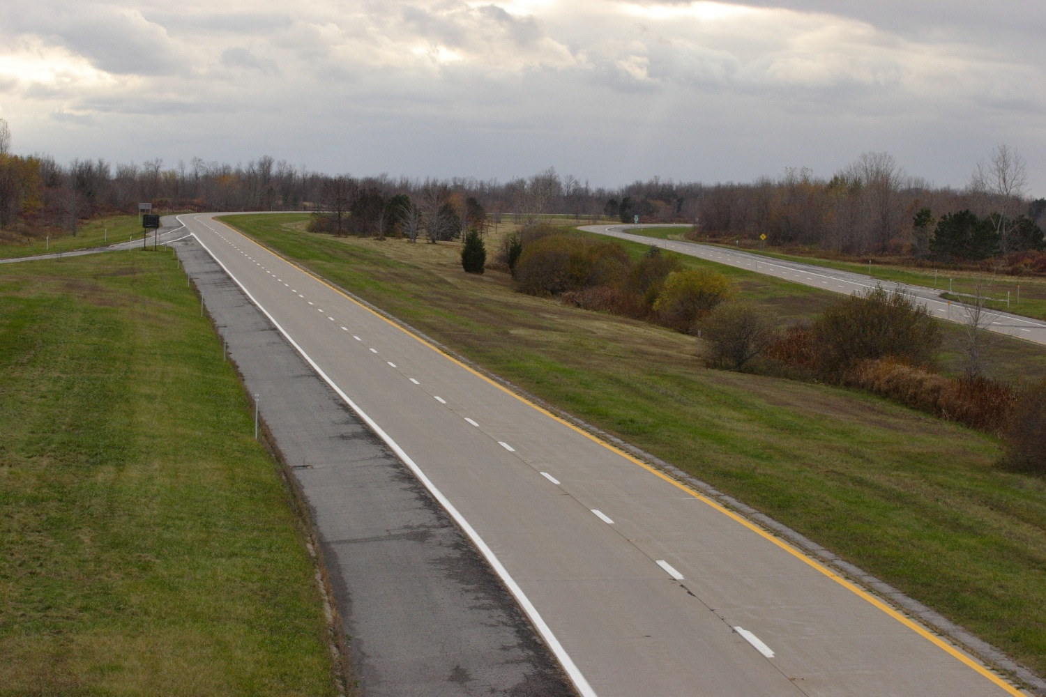 Lake Ontatio State Parkway west of Kendall. Traffic is usually very sparse.